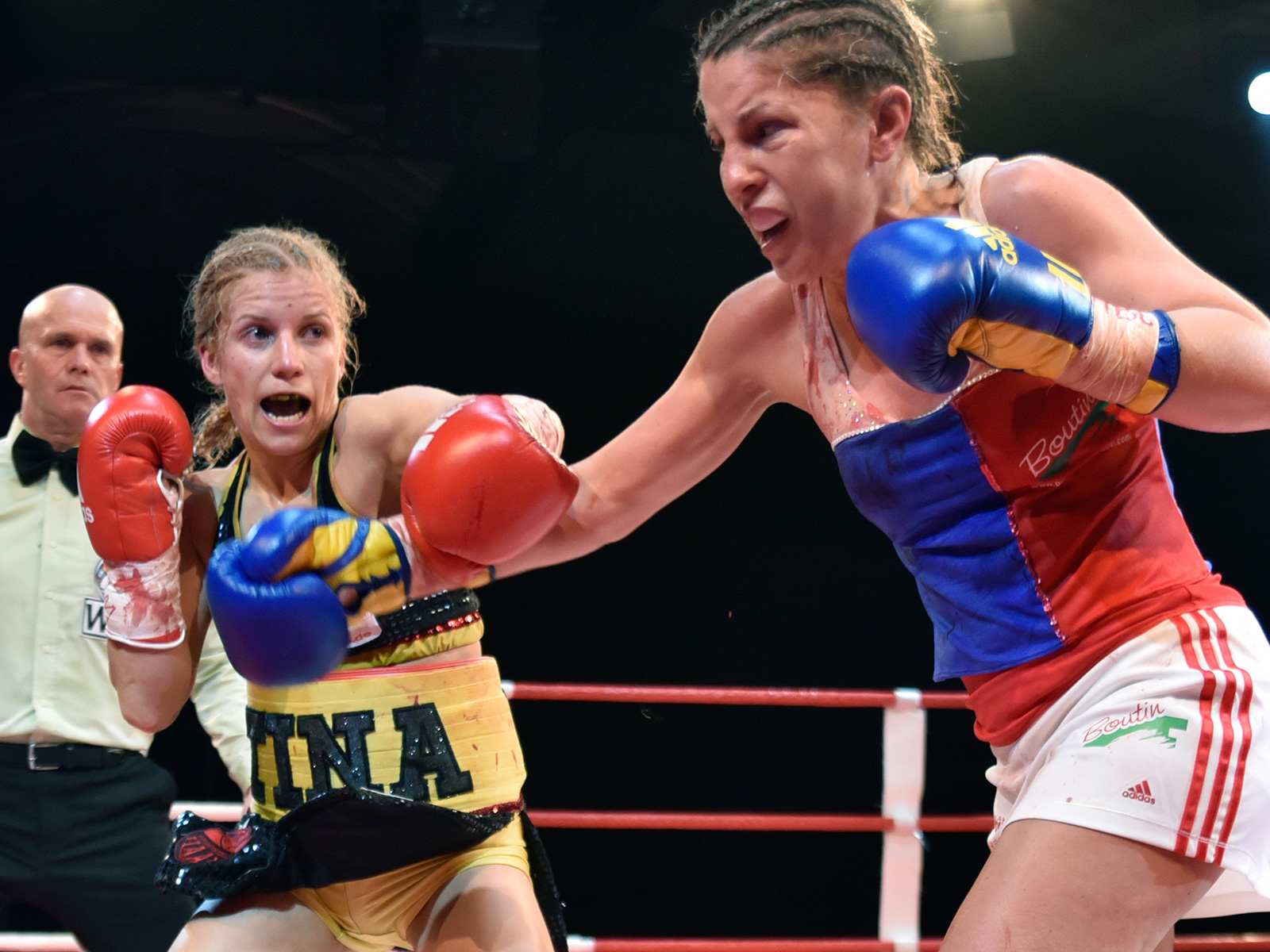 Boxer Tina Rupprecht in her fight against Anne Sophie da Costa on 2nd of December 2017 at Stockschützenhalle, Kühbach, Germany.